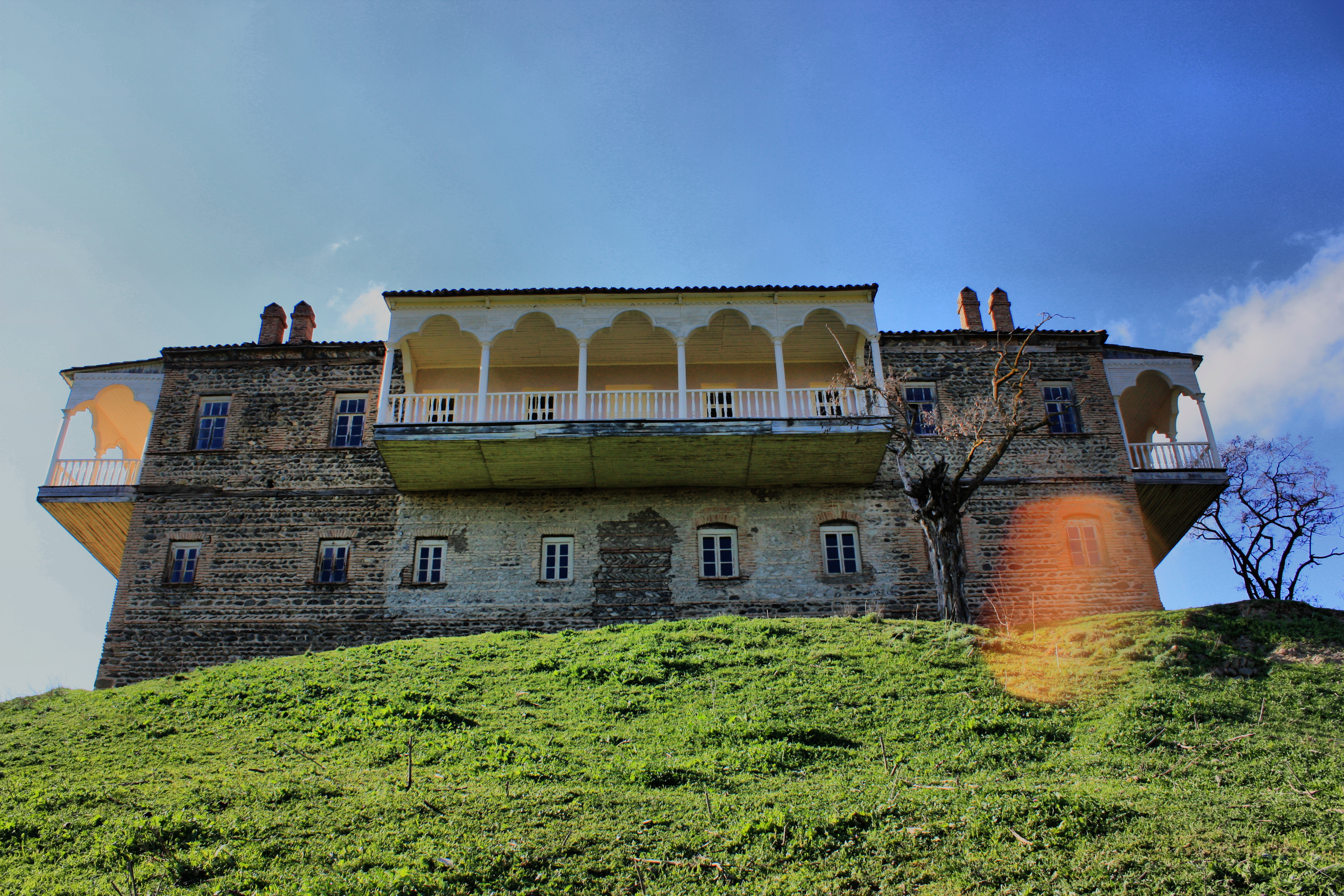 The castle of Jambakur-Orbeliani family.